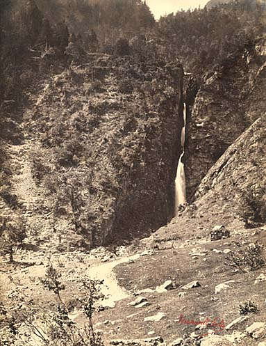 Cascade d'Enfer between Castillon-de-Larboust and Cazeaux-de-Larboust, Haute-Garonne, Pyrenees, France.